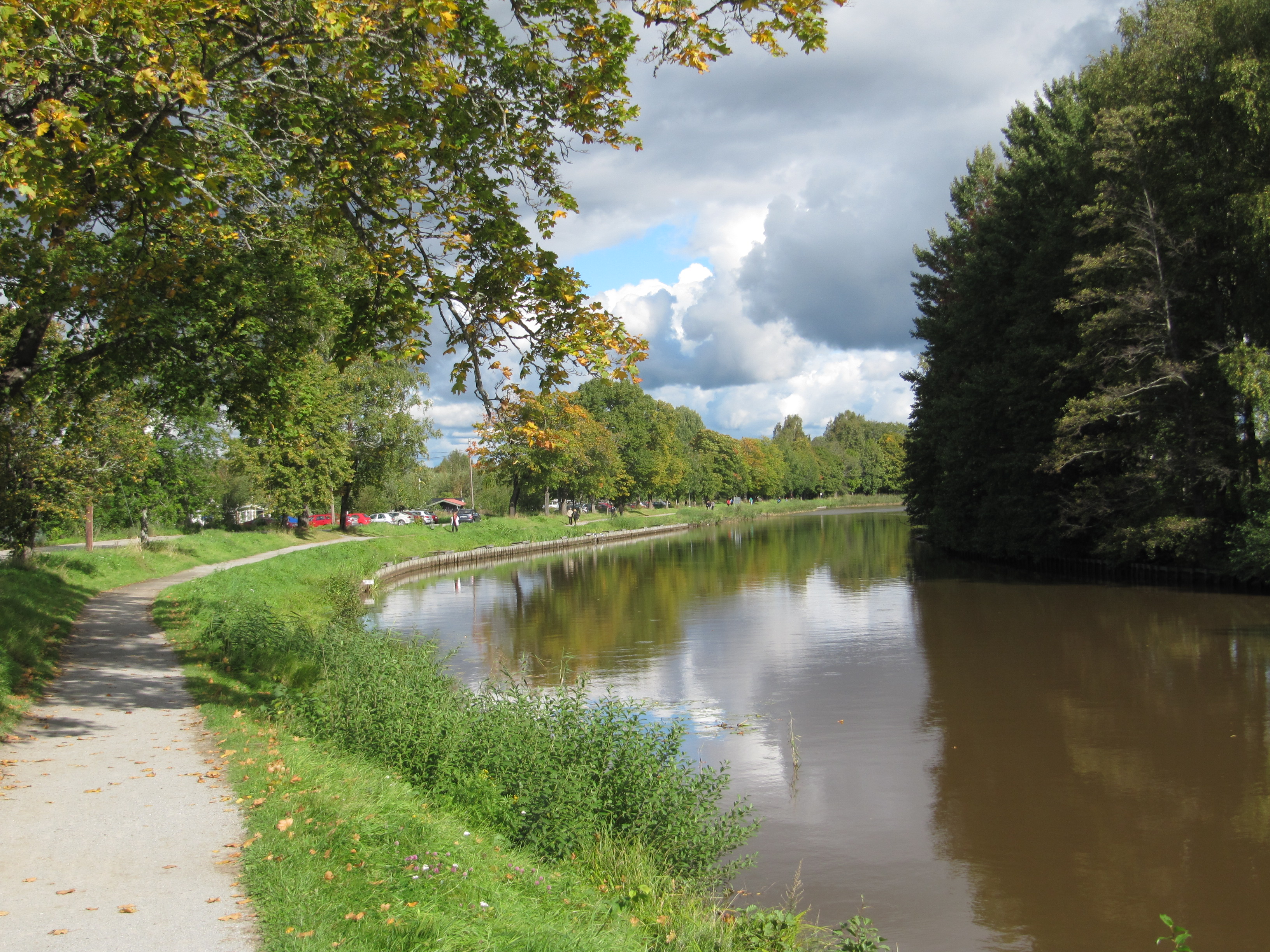 The river Svartån at Örebro, Sweden